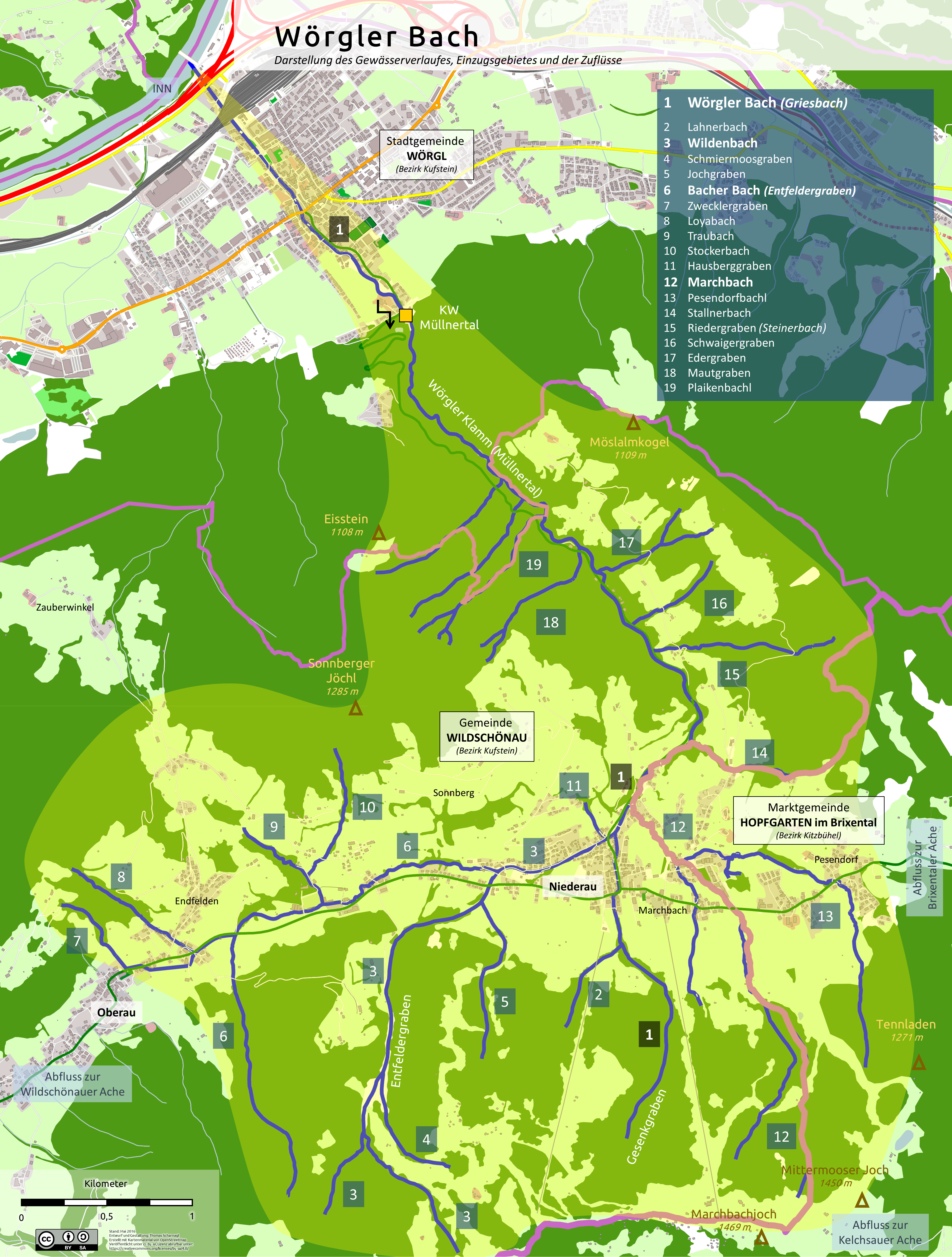 General map of the feeder rivers and the catchment area of the "Wörgler Bach" in Tyrol, Austria.